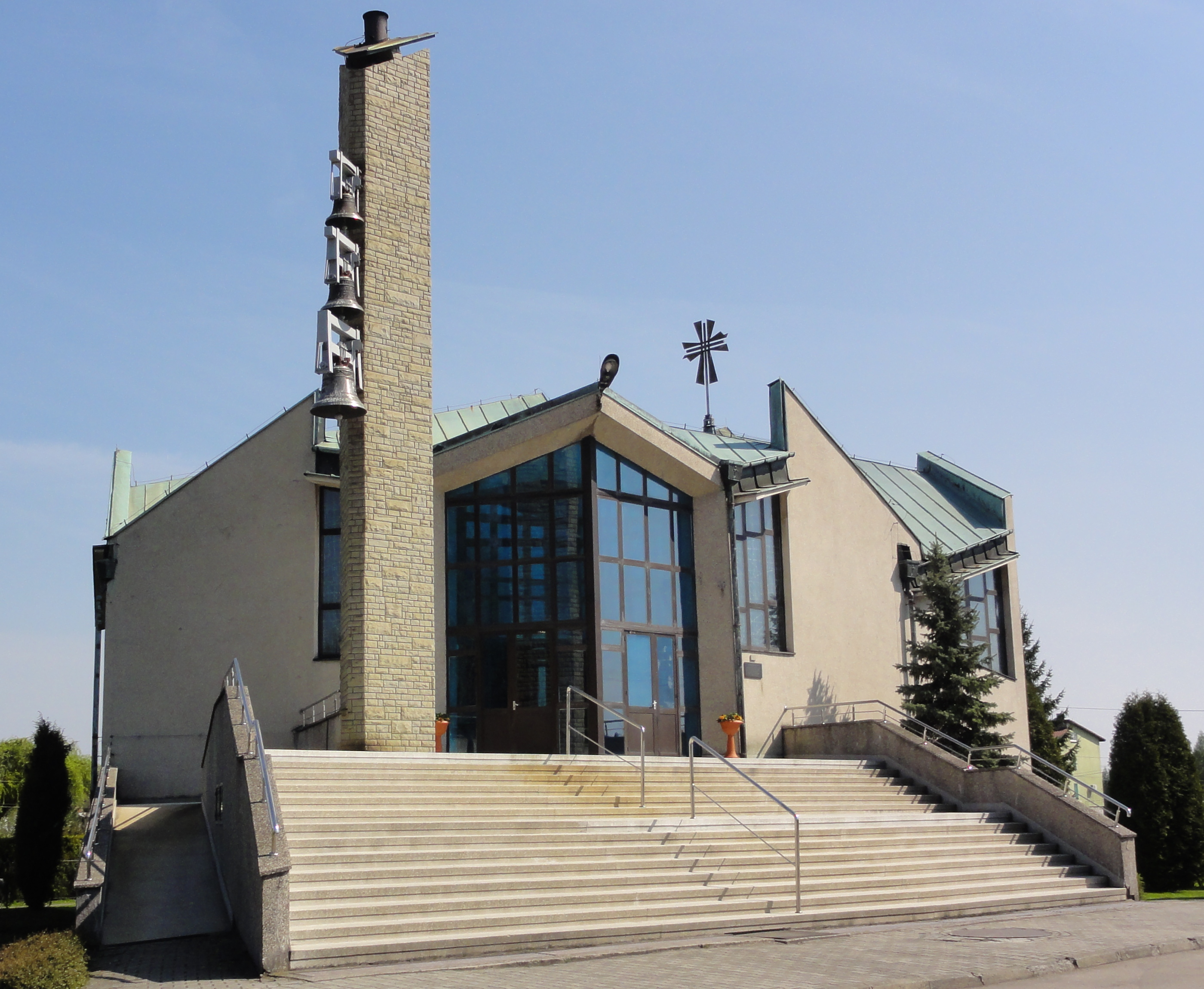 Church of Saint Mary in Zaborze, Cieszyn county